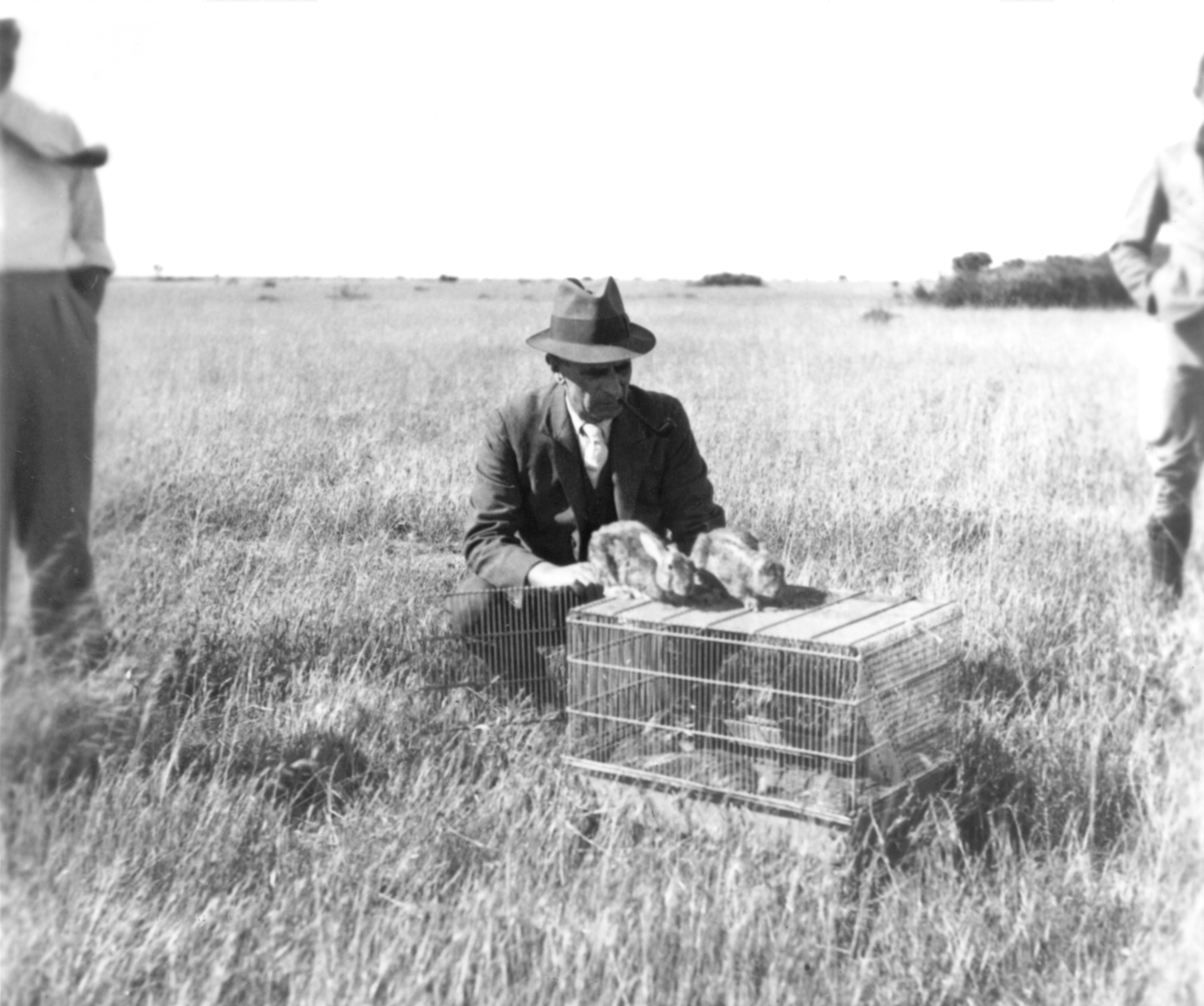 Rabbits were introduced to Australia by early European settlers, and by the 20th century has become a plague. They ravaged the country, destroying pastures, crops and native species. In the early 1930s Dame Jean Macnamara (and others) called for the importation of the myxoma virus as a means of control. Lionel Bull, Chief of the CSIR Division of Animal Health and Nutrition, released the first infected rabbits on the 16 November, 1937 on Wardang Island, South Australia. By the 1950s the deadly virus had caused an epidemic and killed off much of the wild rabbit population.